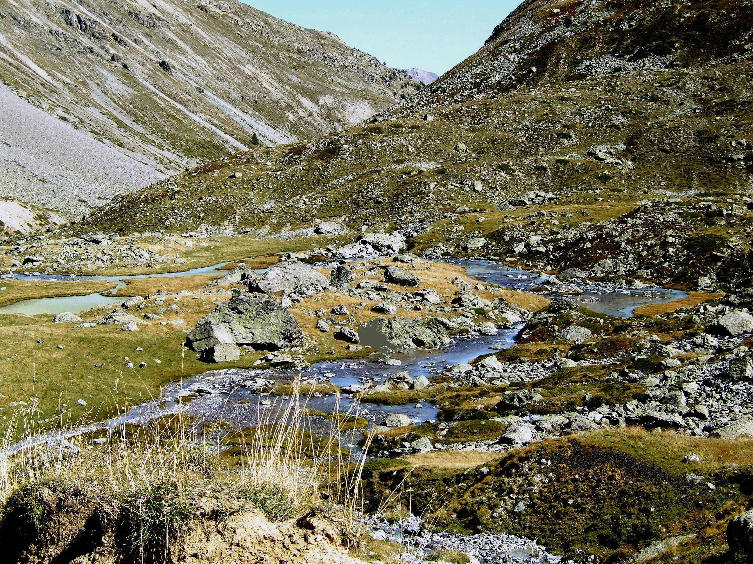 Numerous lakes between Col d'Arsine Arsine and Chalet of in Parc National des Ecrins.